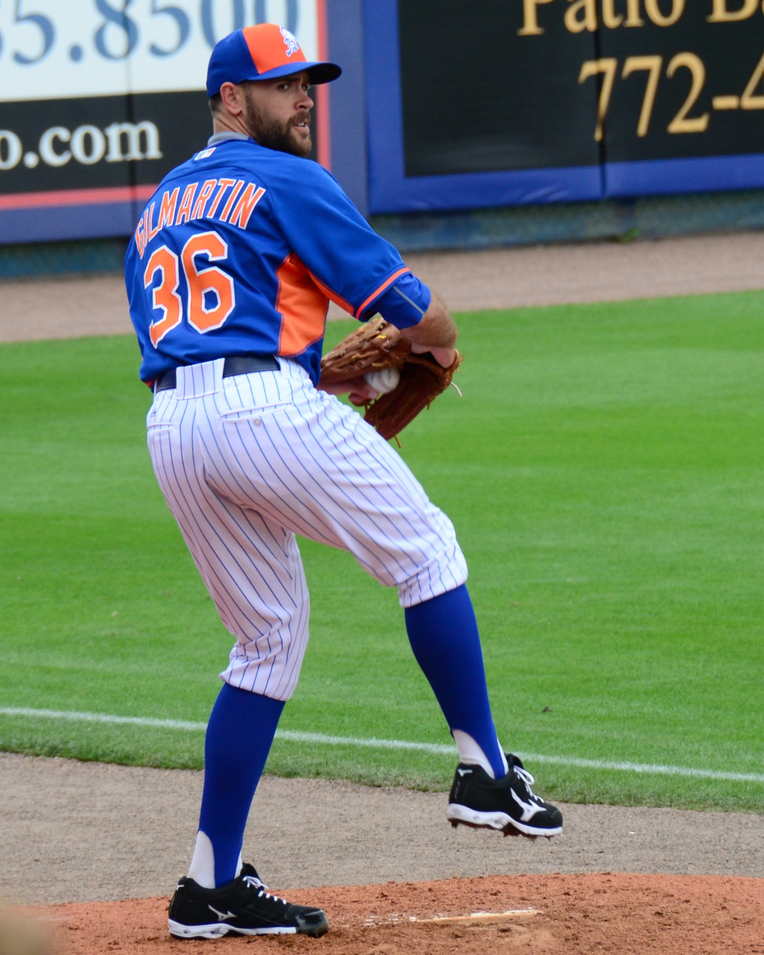 Sean Gilmartin with the New York Mets, March 7, 2015.